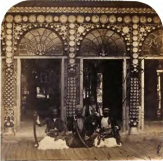 Entrance to the 'China Room' in the resicence of Salar Jung I. (r. 1853-83) the Premier of the indian princely state of Hyderabad showing 4 of his body guards.